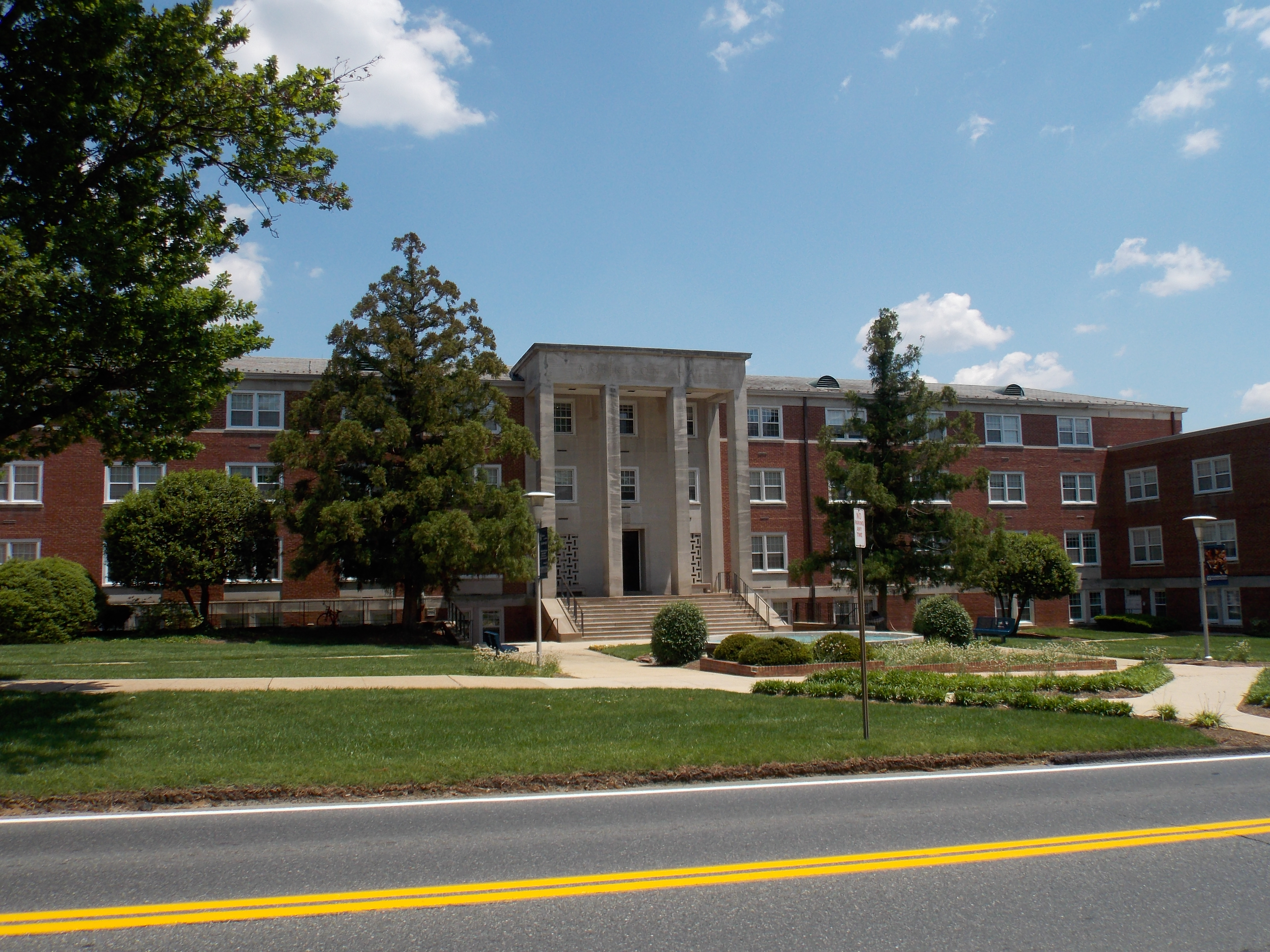 Morrison Hall at Washington Adventist University in Takoma Park, Maryland, USA.